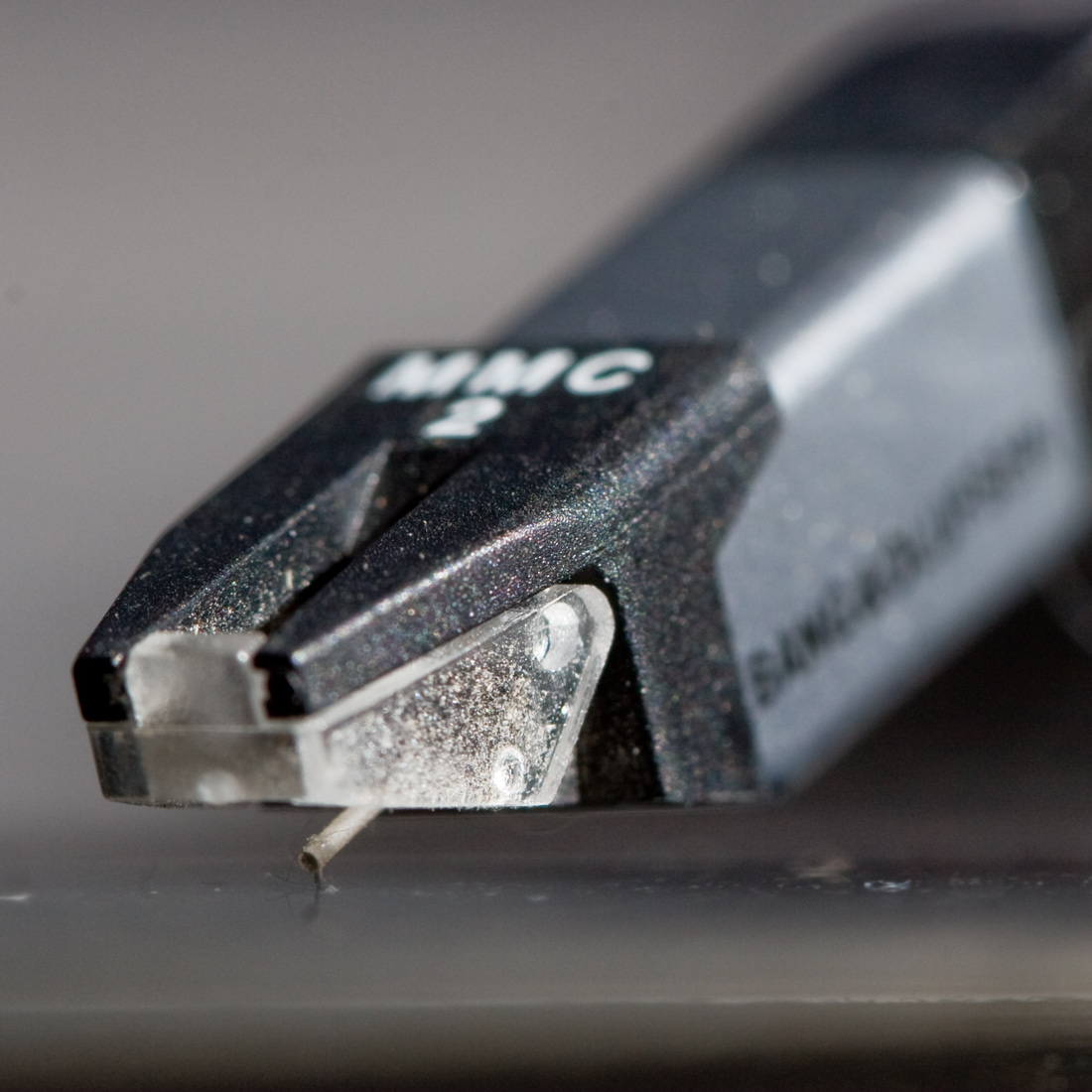 A magnetic cartridge (Moving Micro Cross cartridge - patented by Bang & Olufsen, type MMC2) and the stylus.